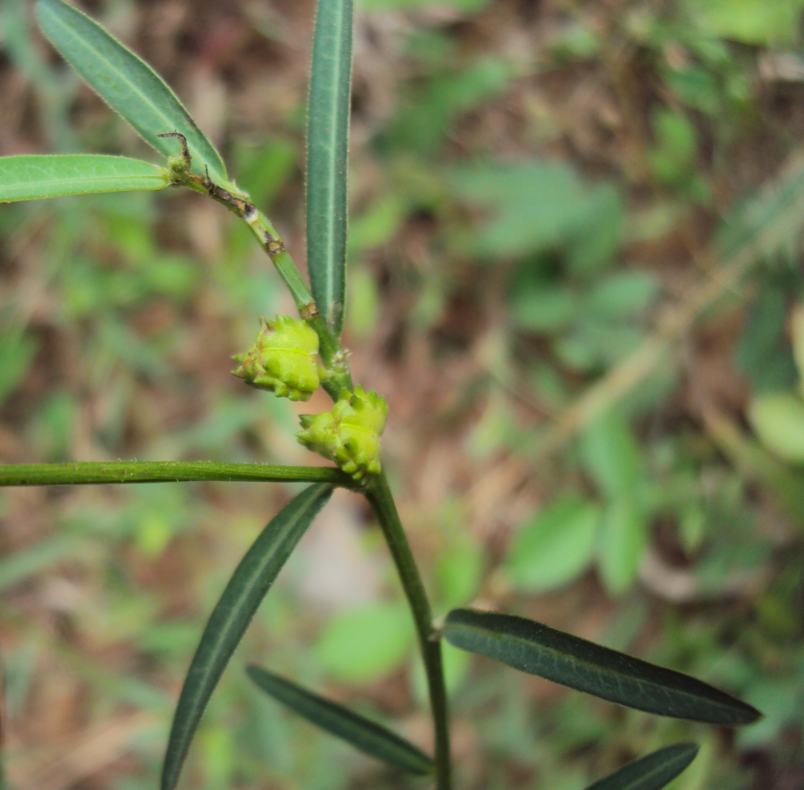 Microstachys chamaelea